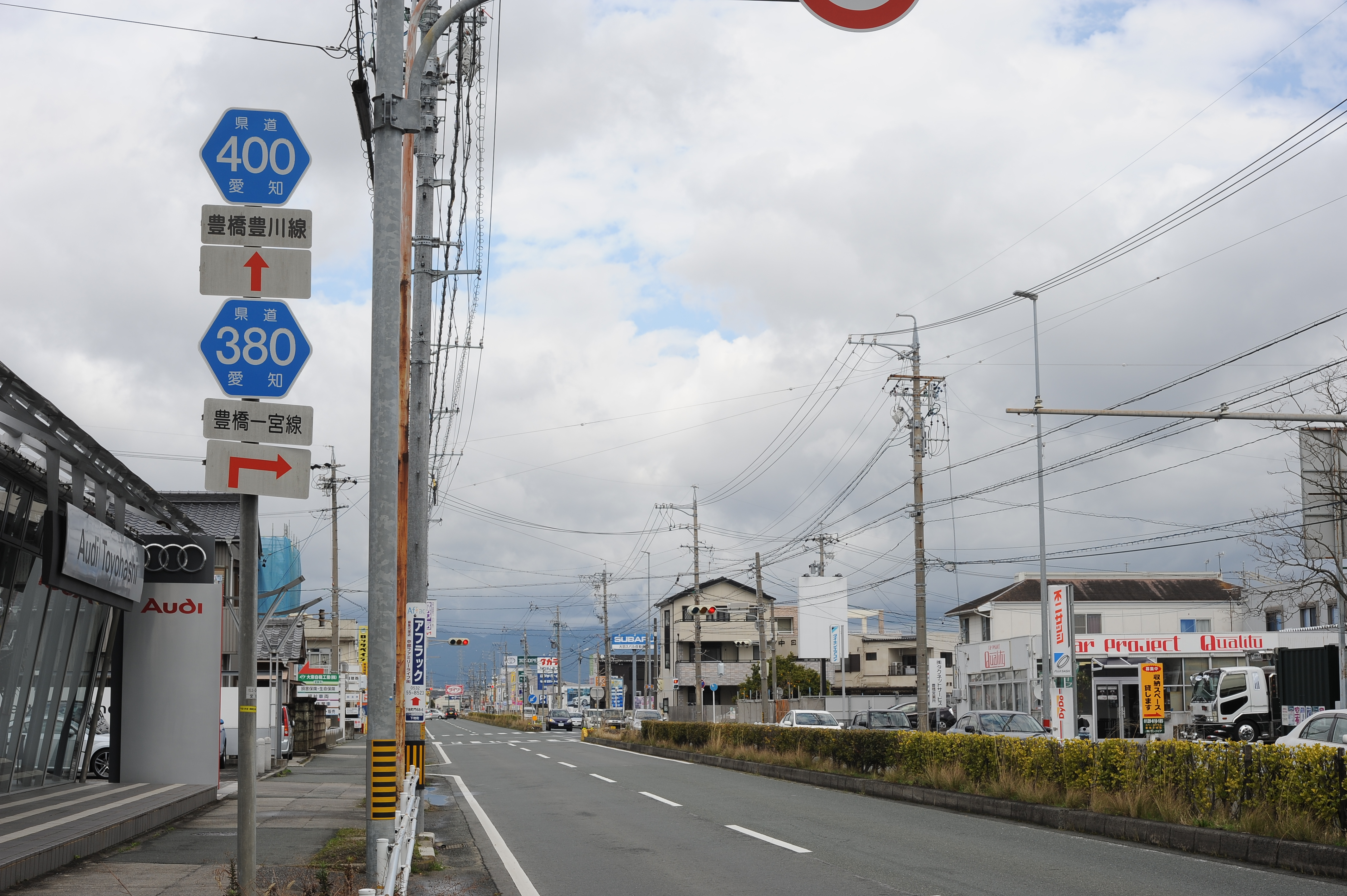 Aichi Prefectural Route 400, Toyohashi, Aichi